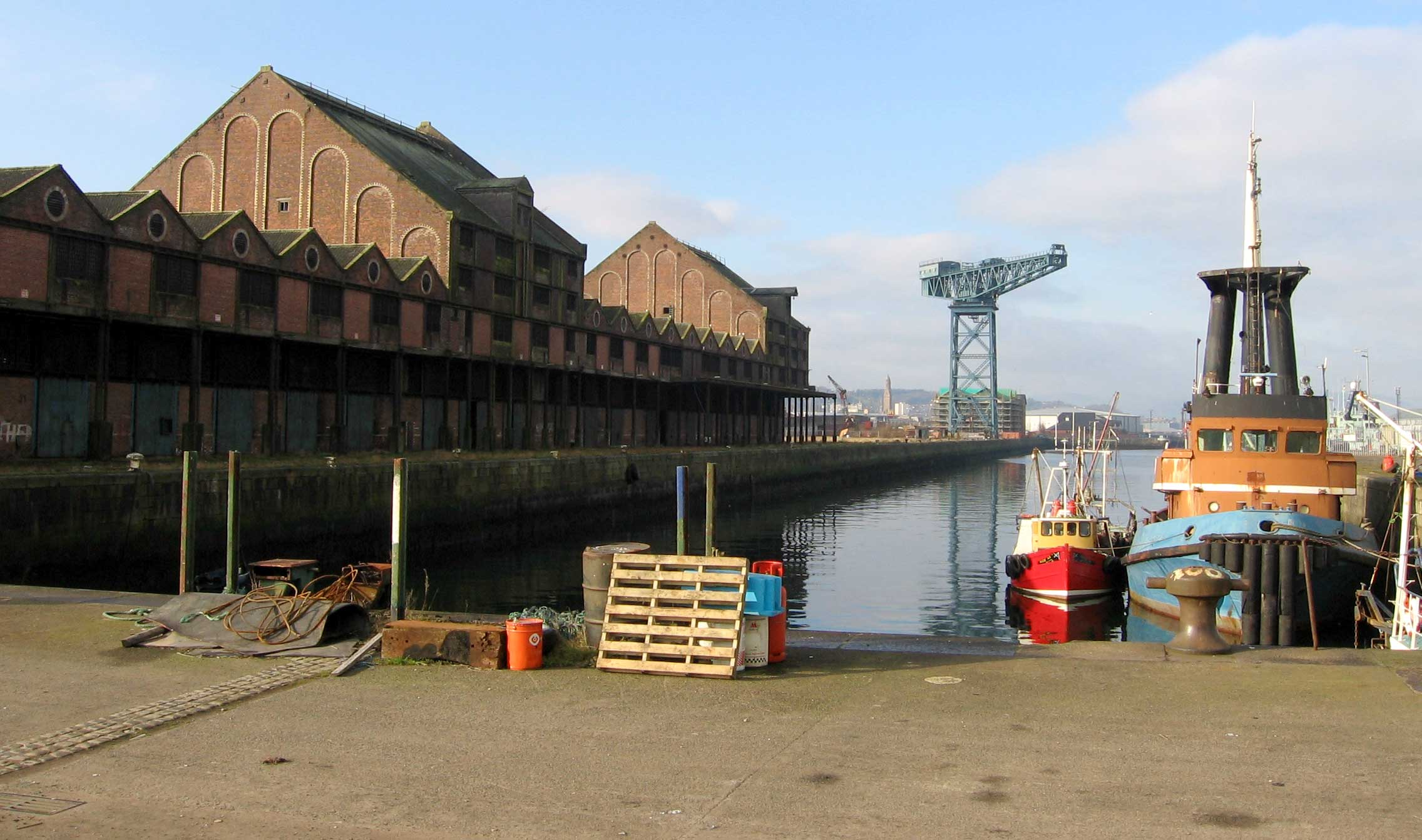 The Sugar Warehouse at Greenock's James Watt Dock is now a listed building, awaiting possible conversion. The hammerhead crane now towers over flats being built on former shipyards and dockside. photograph taken in February 2006 by User:Dave souza. Any re-use to contain this licence notice and to attribute the work to User:Dave souza at Wikipedia.